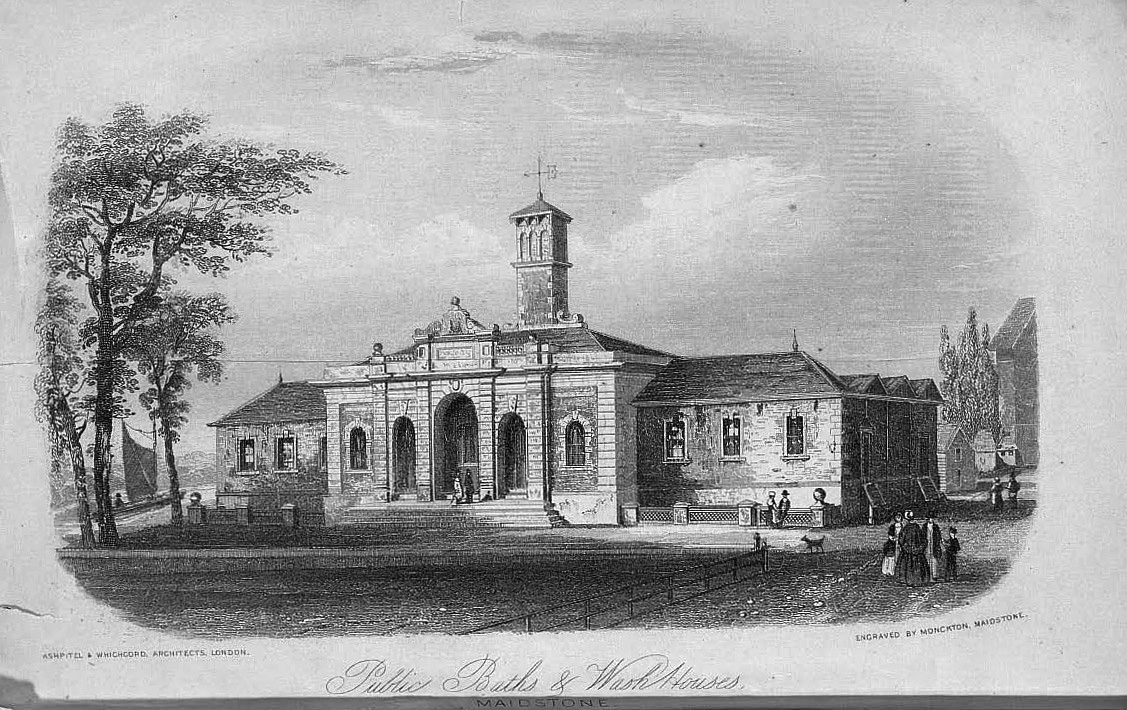 Maidstone baths were built May 19th, 1852 (according to Metcalfe, Richard (1877), Sanitas Sanitatum et Omnia Sanitas) only ten years after the first public baths were established in Britain.